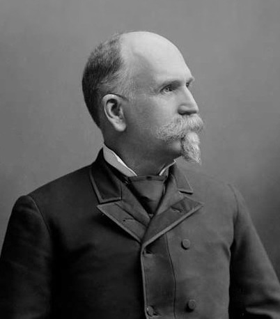 Levi Knight Fuller (left profile)